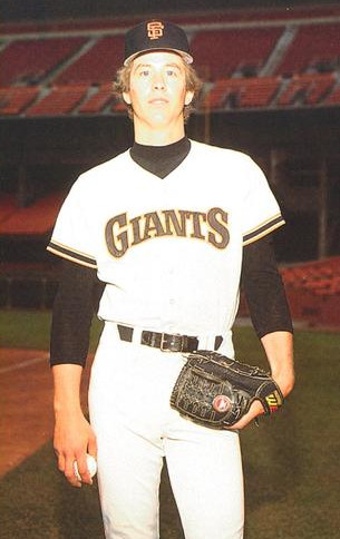 Professional baseball player Fred Breining